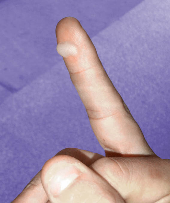 Blister